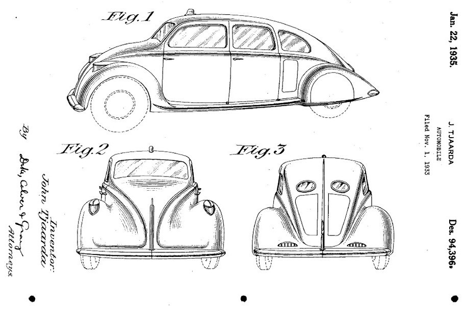 Patent drawings of a 1933 automobile design by Dutch American designer John Tjaarda — Left side, front and rear views